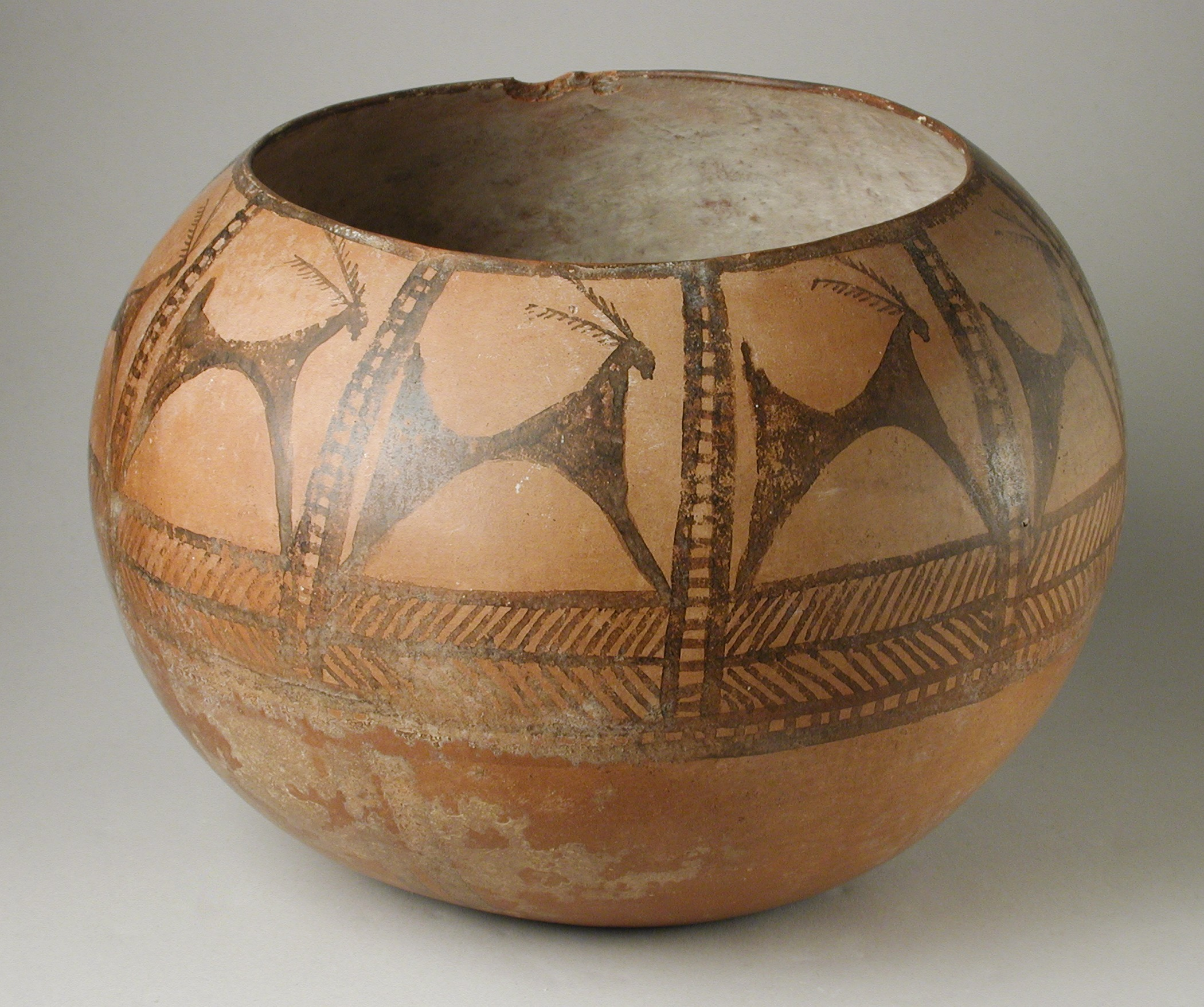 Central Iran, Cheshmeh Ali - Esmailabad, circa 5000-4500 B.C. Furnishings; Serviceware Ceramic 7 x 9 in. (17.78 x 22.86 cm) Gift of Nasli M. Heeramaneck (M.76.174.156) Art of the Ancient Near East Currently on public view: Hammer Building, floor 3